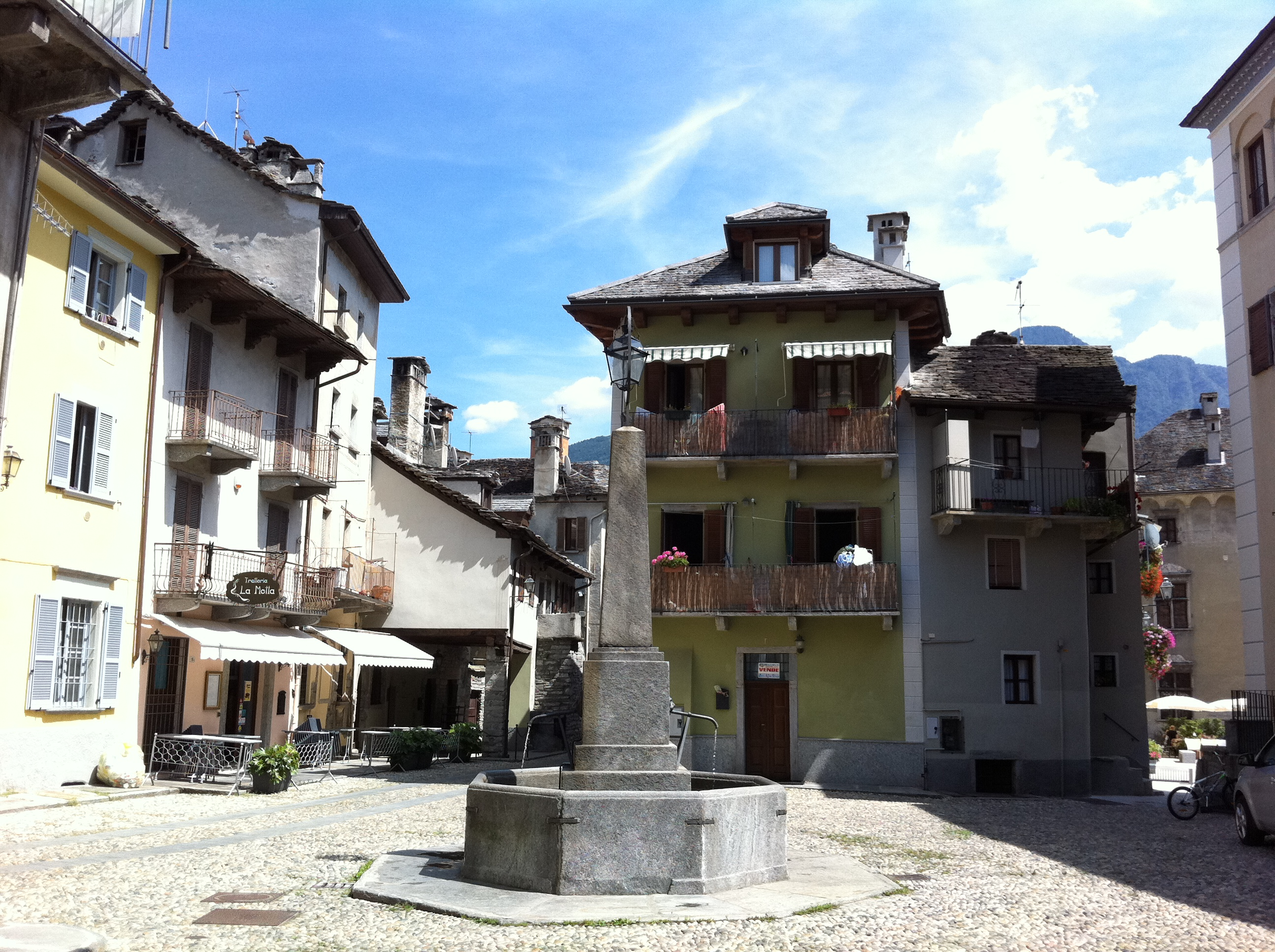 Piazza Fontana, Domodossola